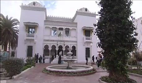 Regional School of Fine Arts Mostaganem -Algeria